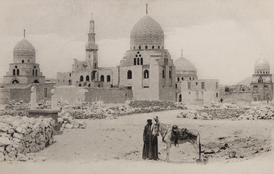 Four domed buildngs with a tower